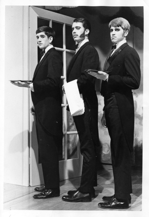 Goshen College Drama - Goshen, Indiana Citation: Goshen College Information Services Audiovisual Materials. V-04-011. Mennonite Church USA Archives - Goshen, Indiana.